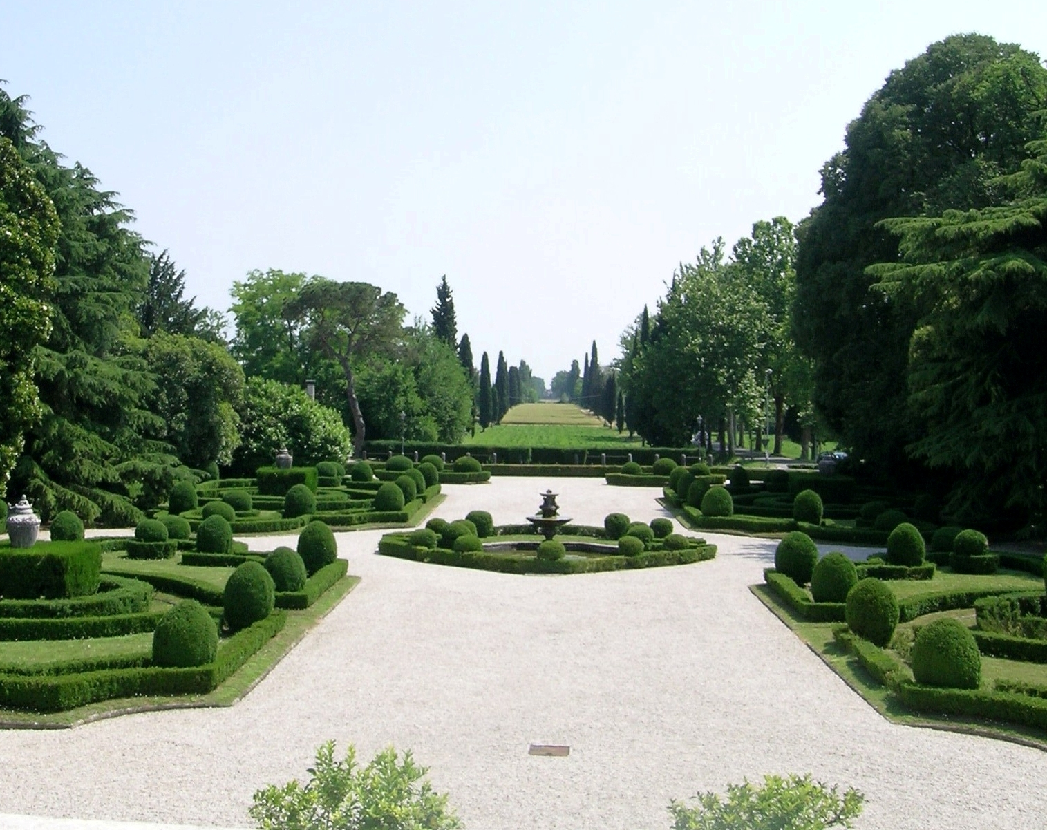 Villa Tiepolo Passi Italianate garden